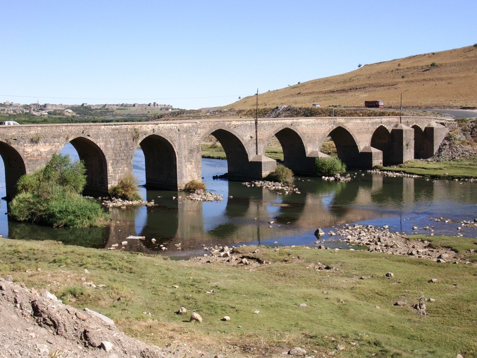 Seljuk Empire bridge over the Tigris — in Turkey.